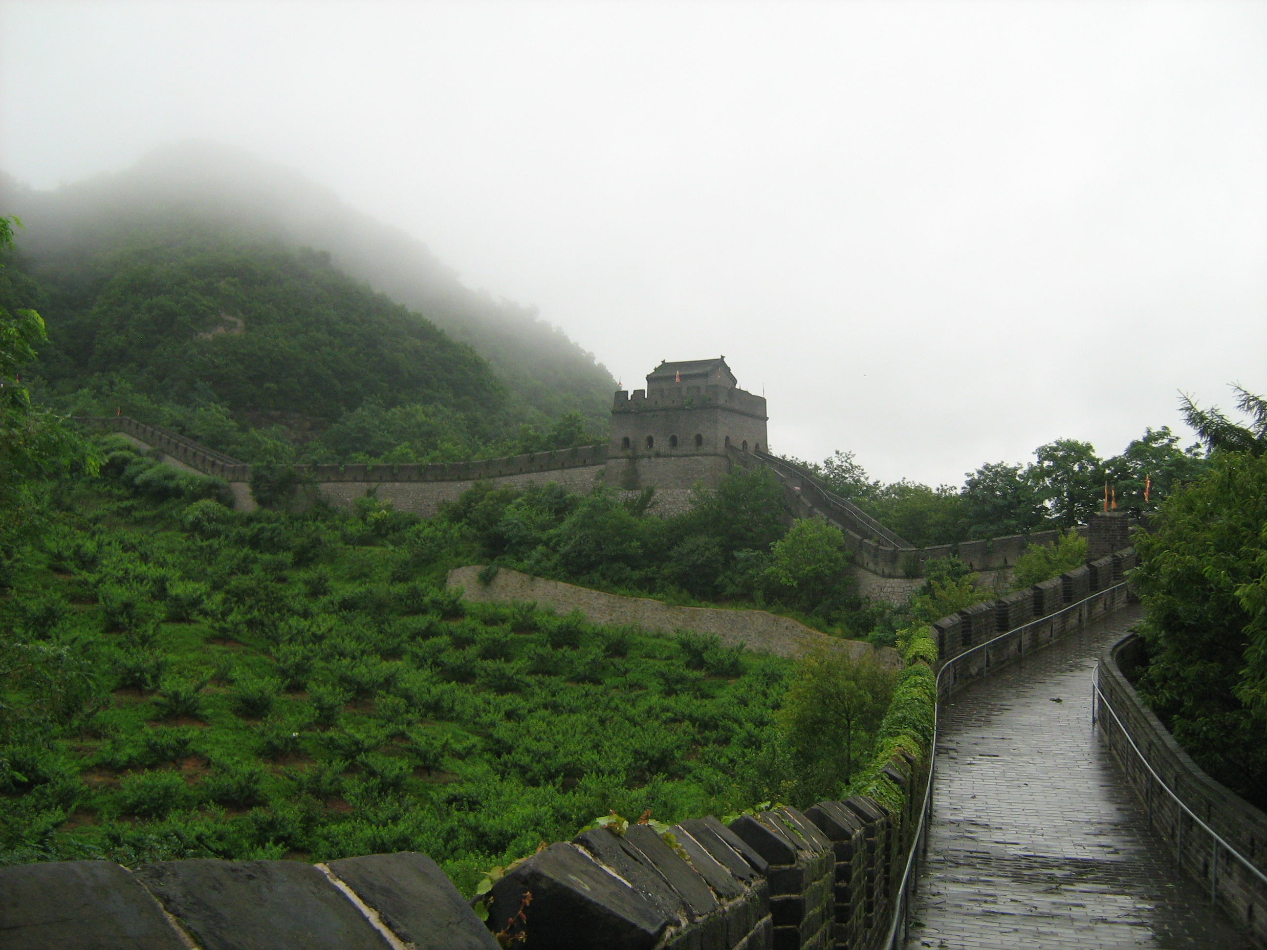 This shows the Great Wall of China at Dandong on the border with North Korea